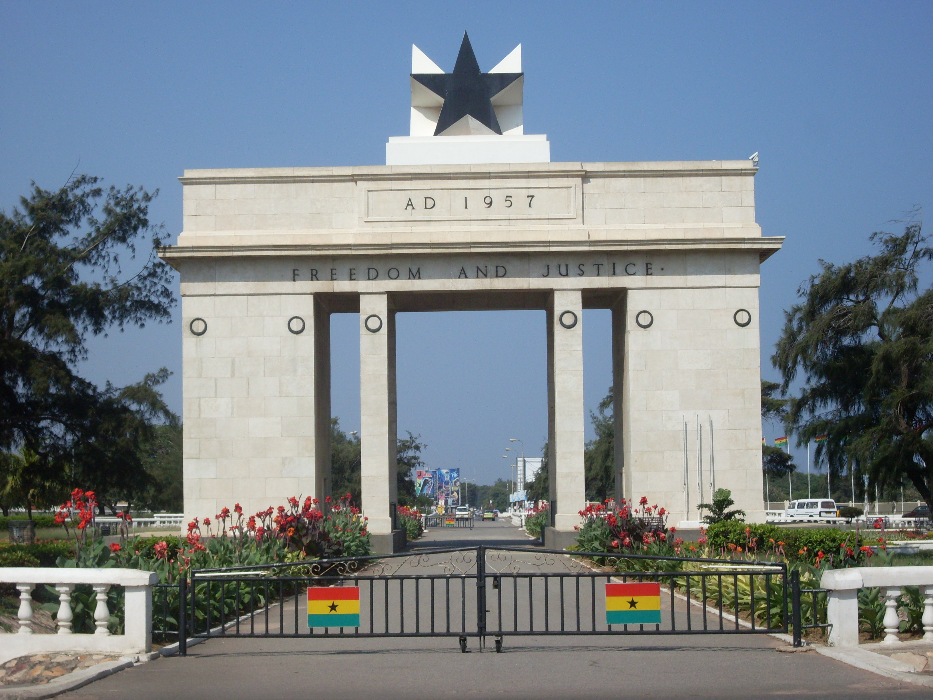 Photo of the Independence Arch in Accra, Ghana, built to commemorate Ghana's independence. The national motto, Freedom and Justice is boldly inscribed at the top of the arch.